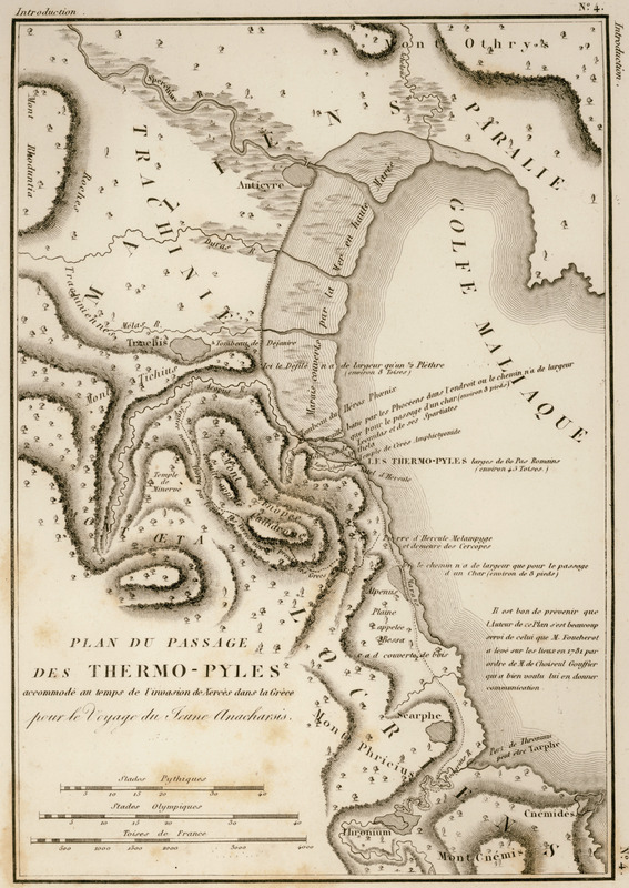 Jean Jacques Barthélemy. Voyage du jeune Anacharsis en Grèce, vers le milieu du quatrième siècle avant l’ère vulgaire. – Atlas, Paris, Abel Ledoux fils, 1832.